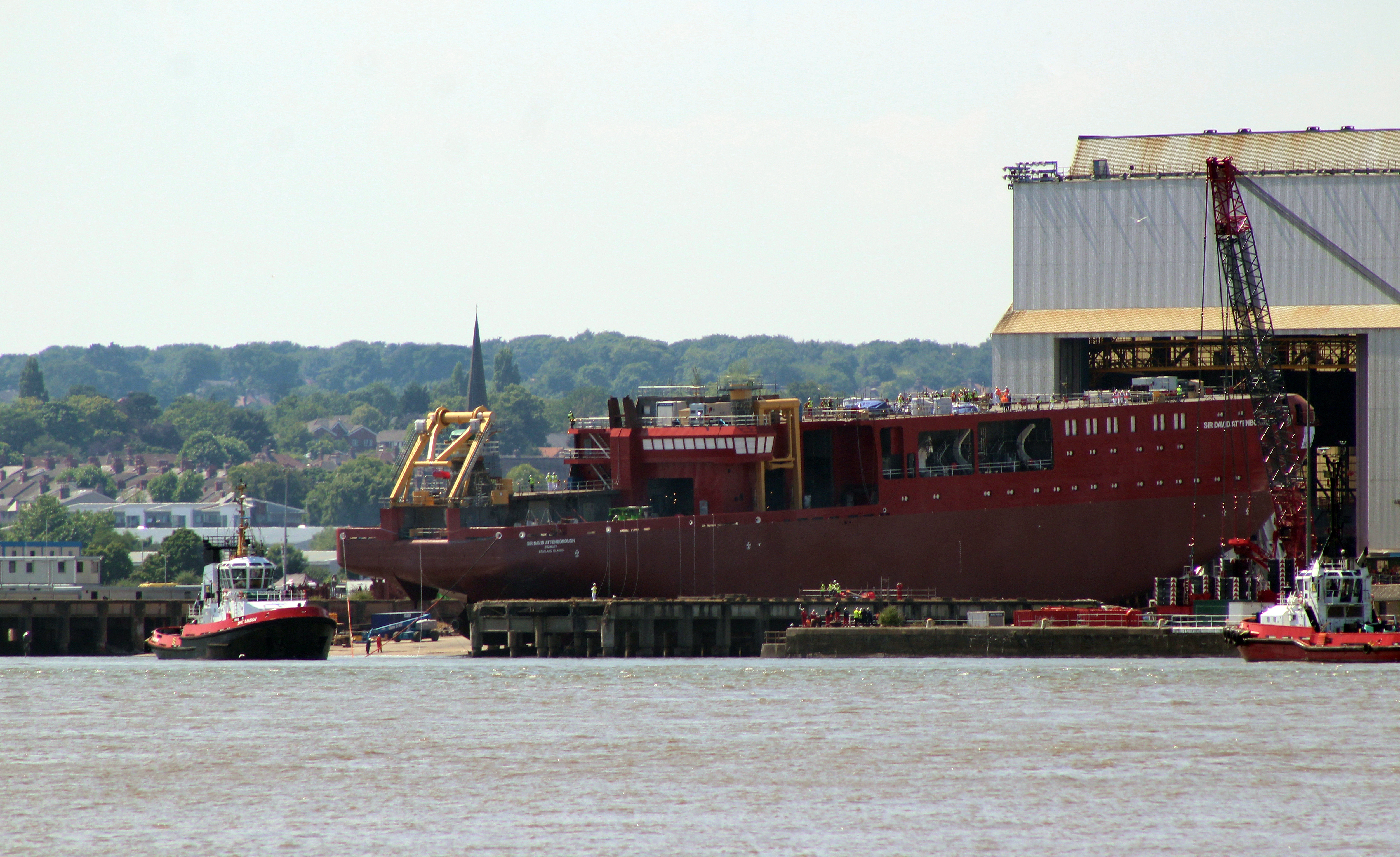 The hull about to be released and slide stern first down the slipway into the Mersey.